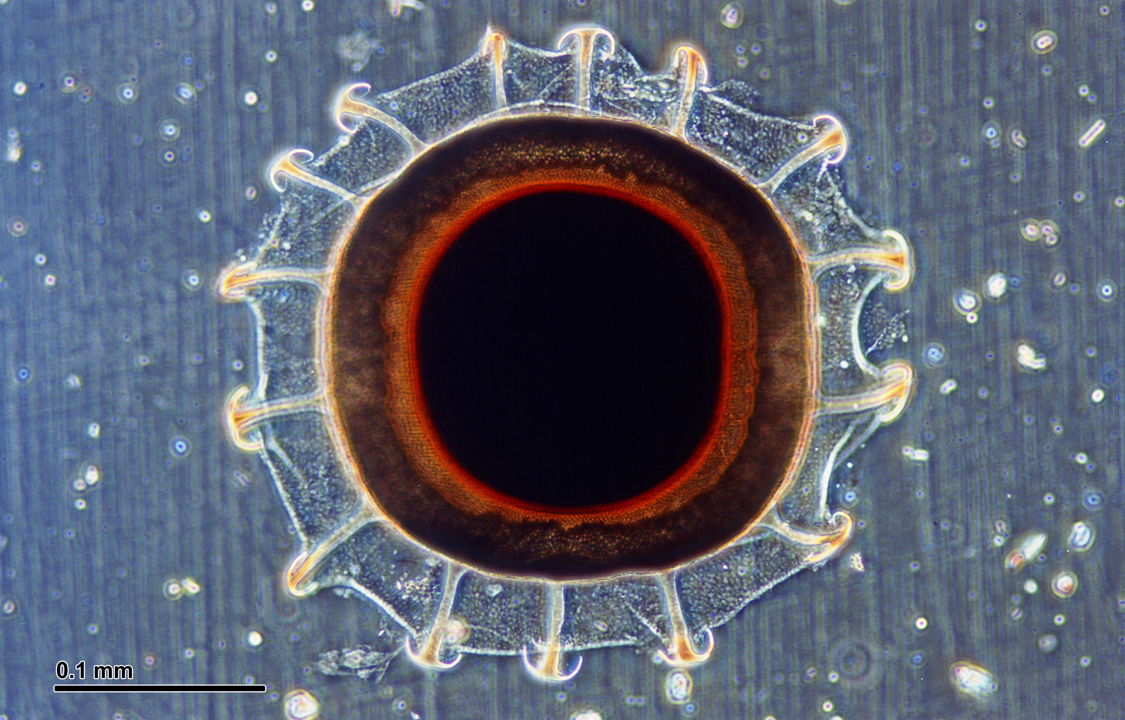 Pectinatella magnifica statoblasts (Pectinatella magnifica): Statoblast of Pectinatella magnifica, a species of Bryozoa. Optical microscopy technique: Negative phase contrast. Magnification: 480x (for picture width 26 cm ~ A4 format).